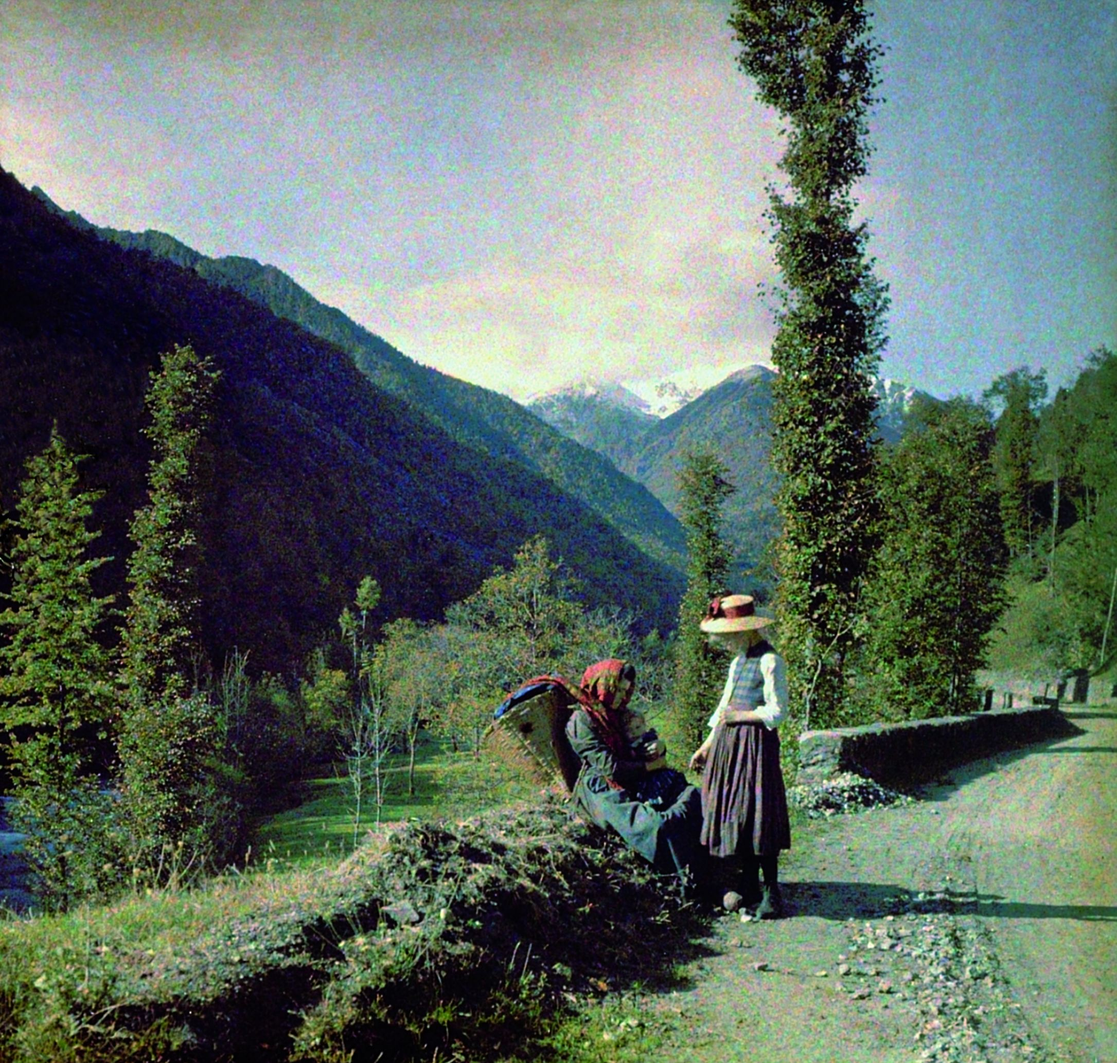 Lanzo Valleys